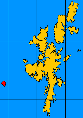 Adaption of Shetland.png highlighting Foula